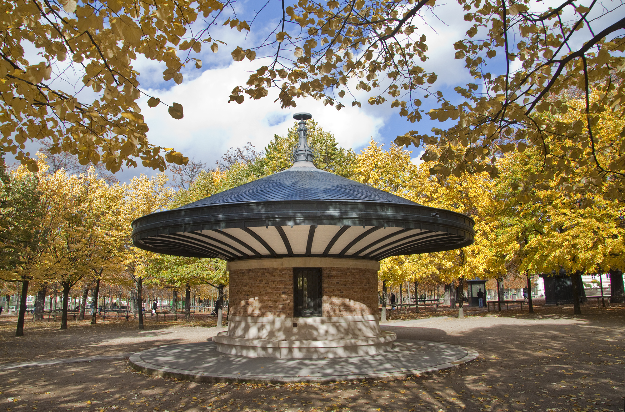 The cabin of the supervisors in the Jardin du Luxembourg in Paris.